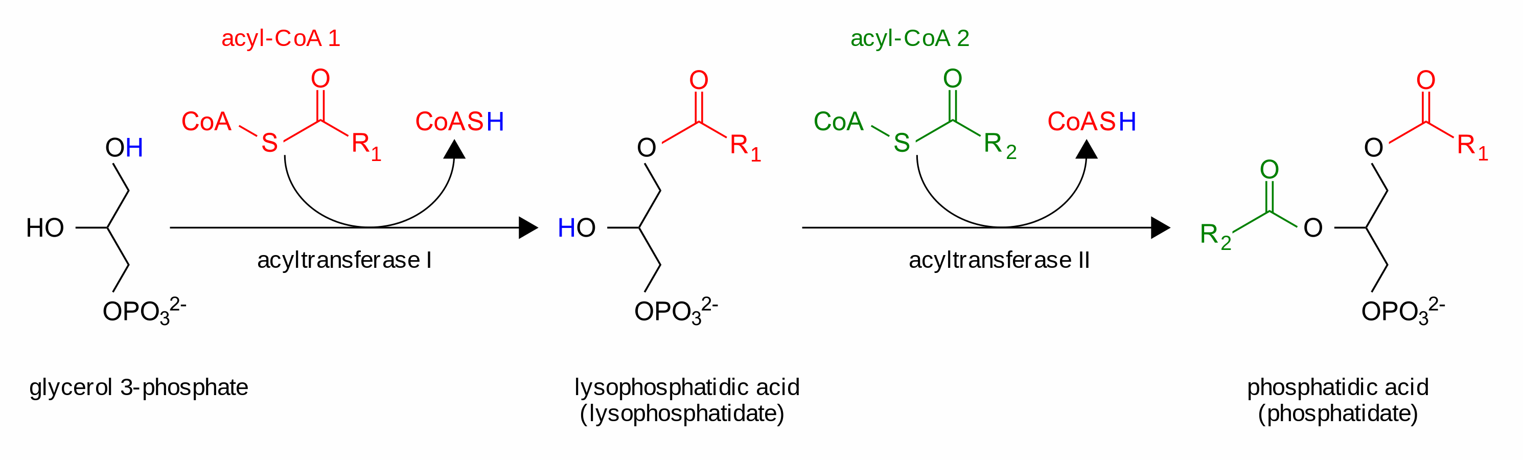 File:Phosphatidic acid synthesis en.svg converted to .gif format